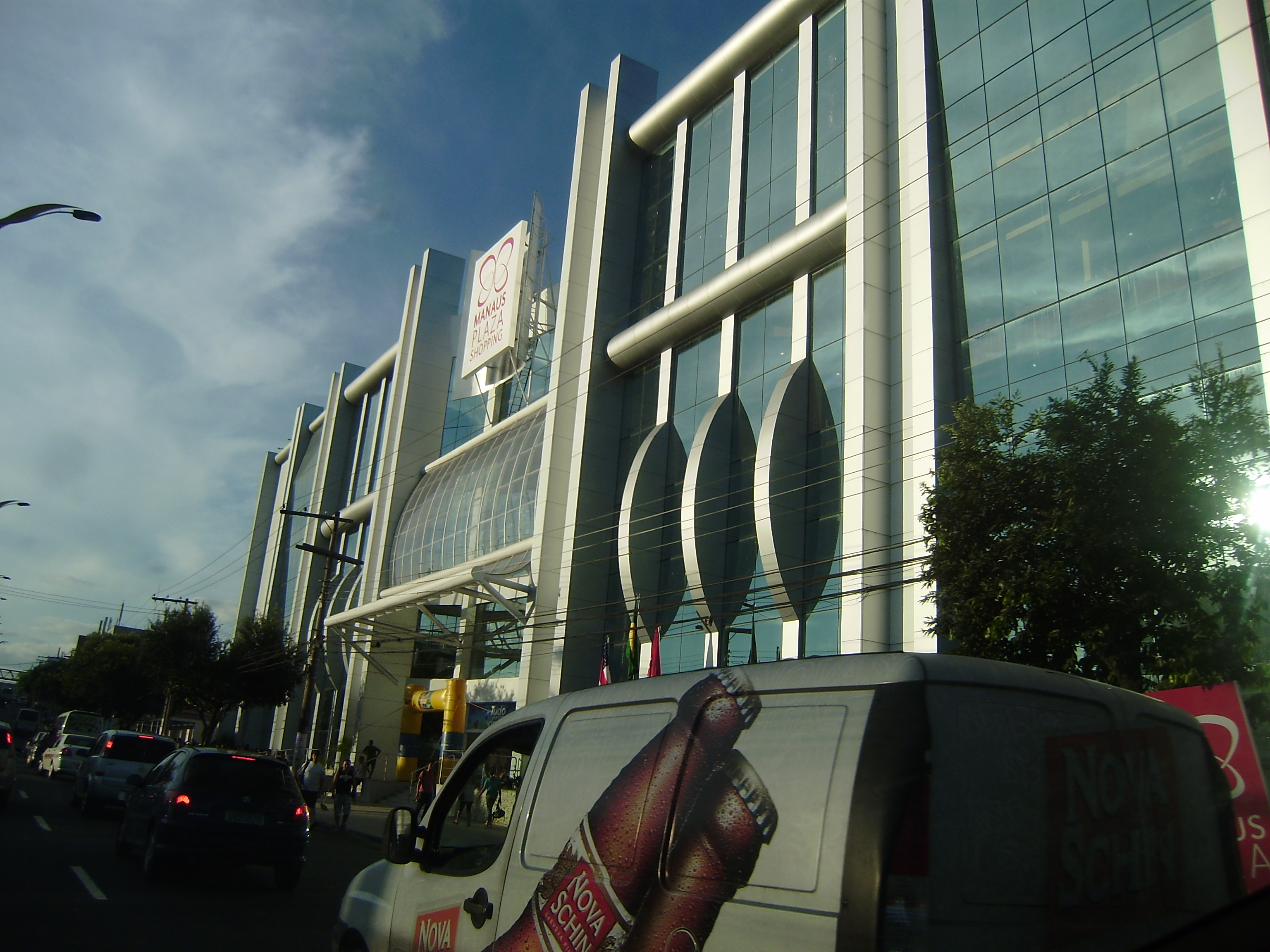 Manaus Plaza Shopping Mall in Manaus, Brazil